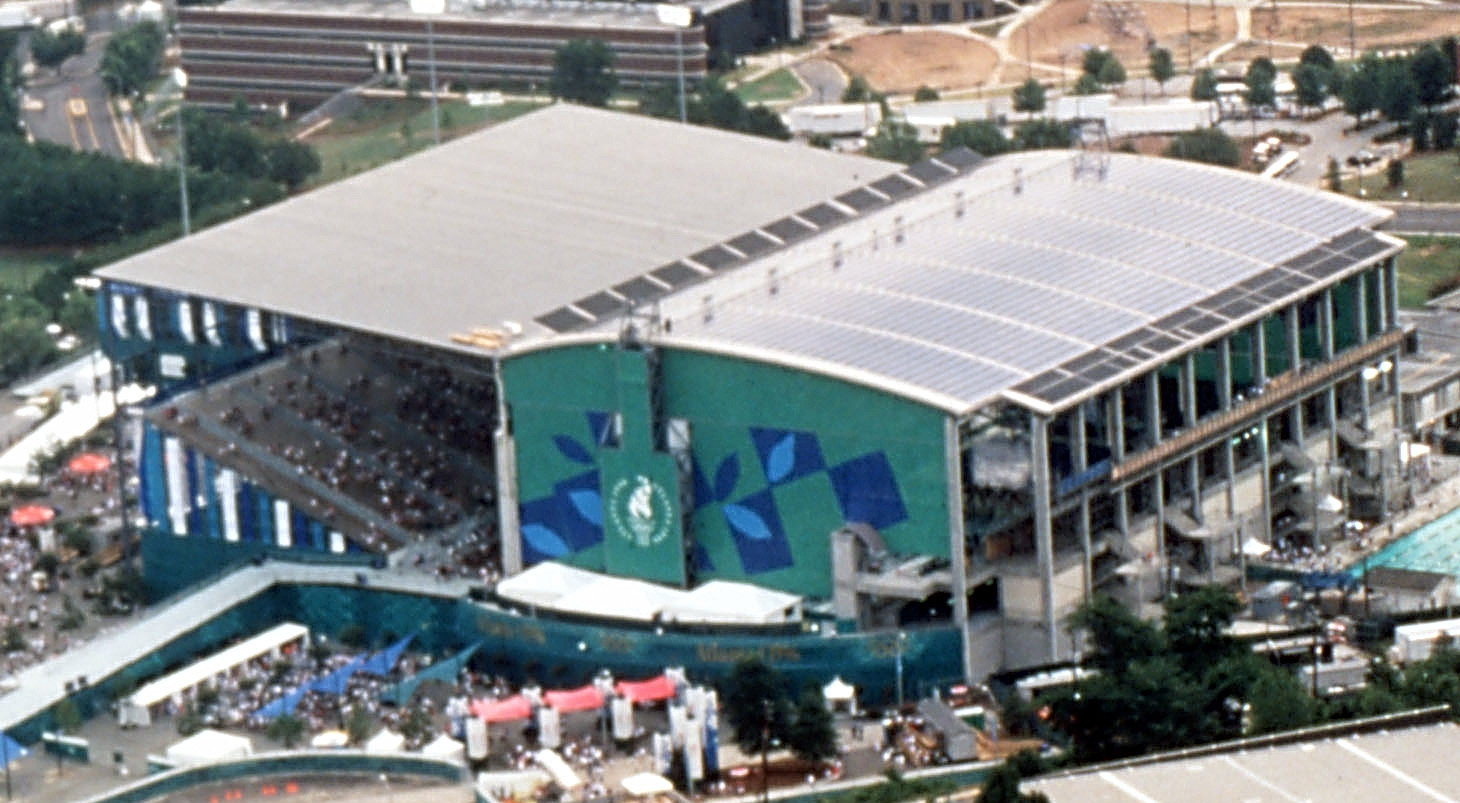 This is an aerial shot showing one of the several sports complexes being used during the 1996 Summer Olympic Games at Atlanta, Georgia.